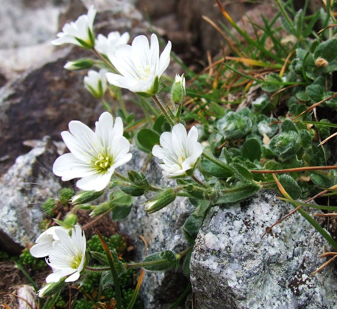 Cerastium uniflorum. Habitat:High Tatra Mountains